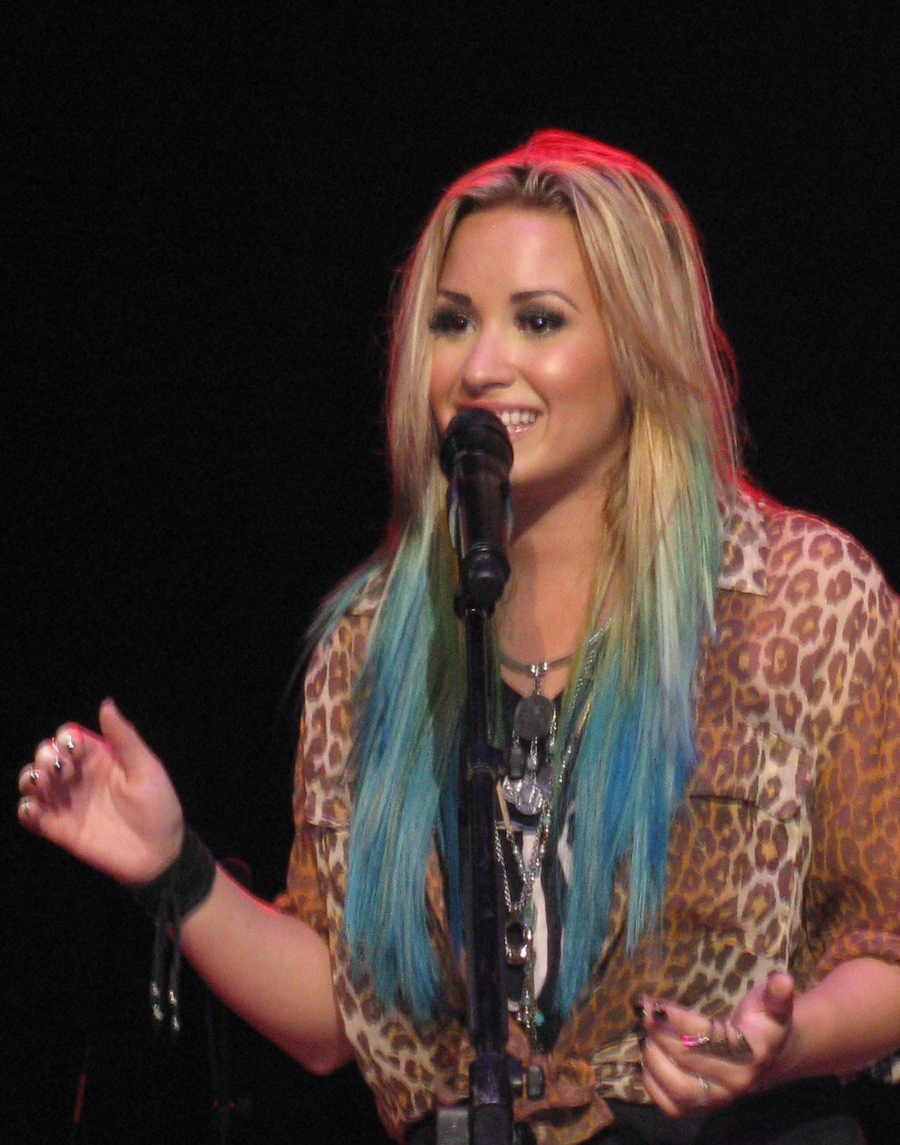 Demi Lovato smiling and singing at a concert in Springfield, IL